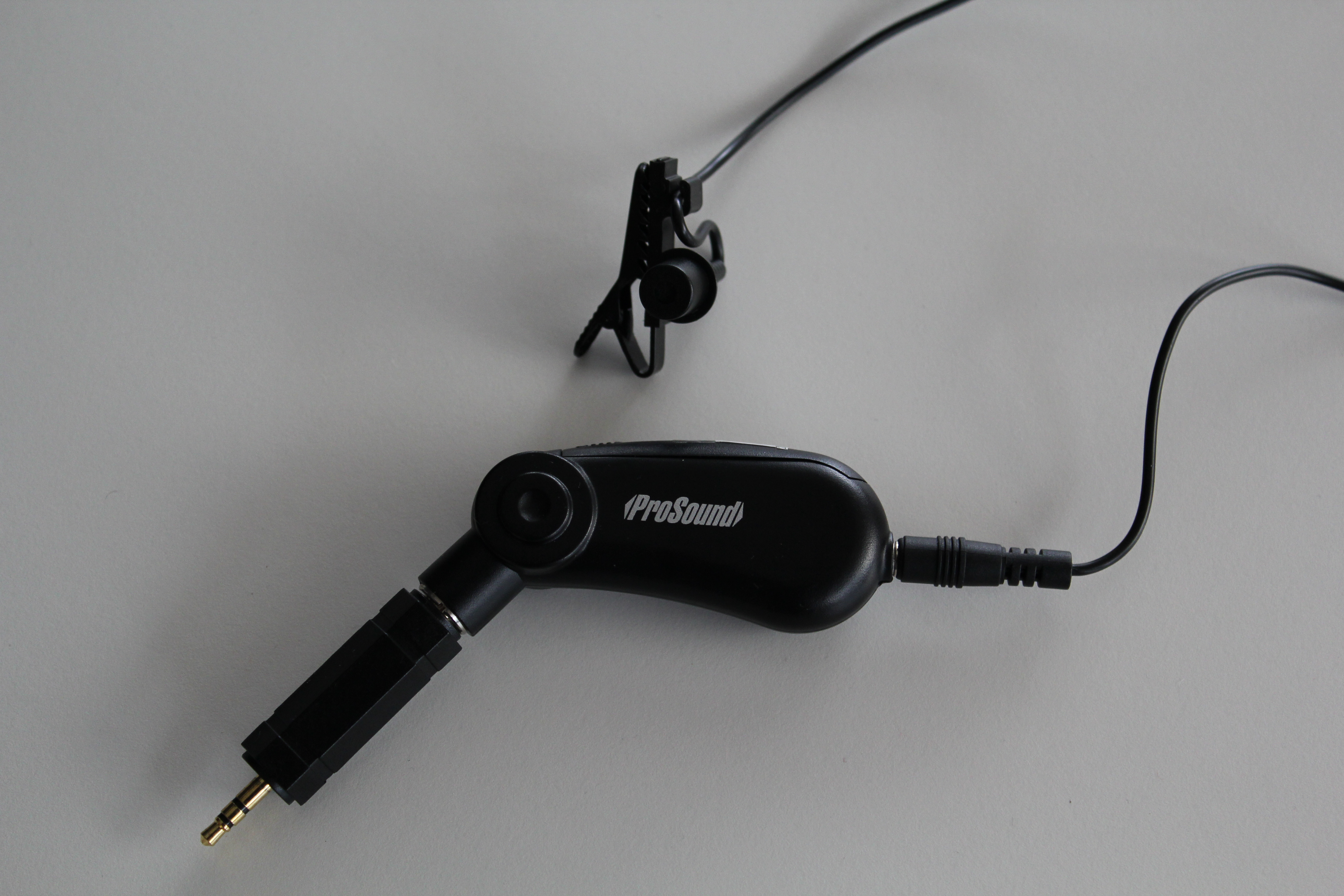 Mini Tie-Clip Mono Microphone L48AA